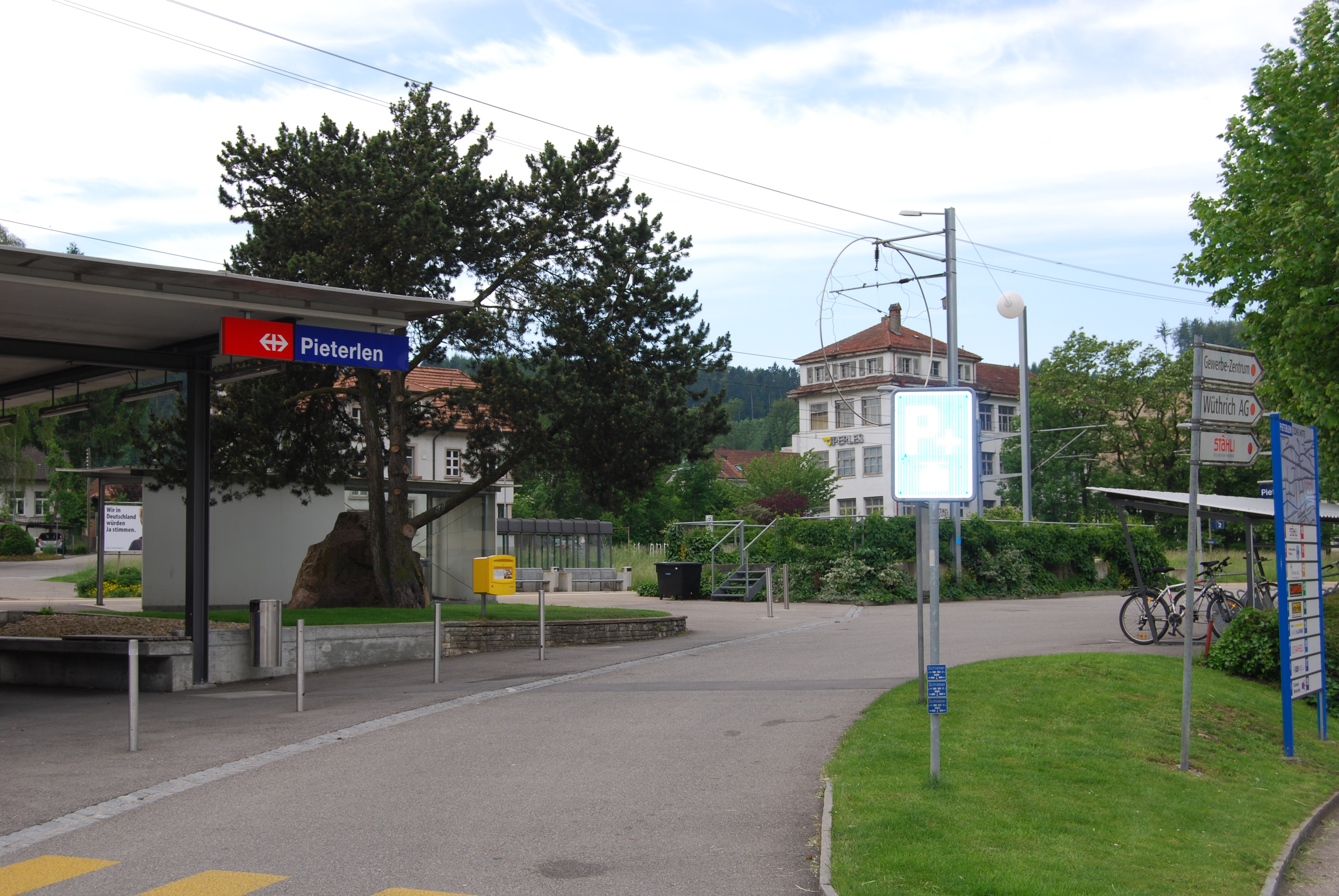 Train station of Pieterlen, canton of Bern, Switzerland